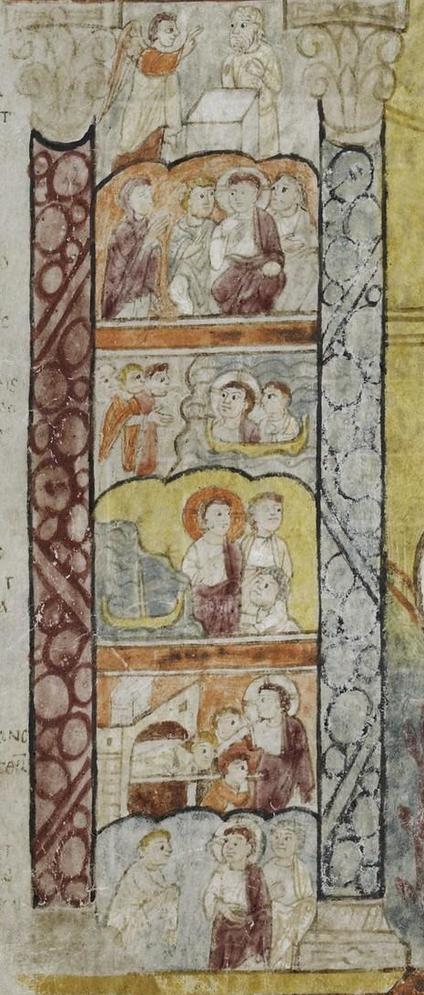 Folio 129v of the St. Augustine Gospels (Cambridge, Corpus Christi College, MS 286), Portrait of Luke - Detail of left hand scenes